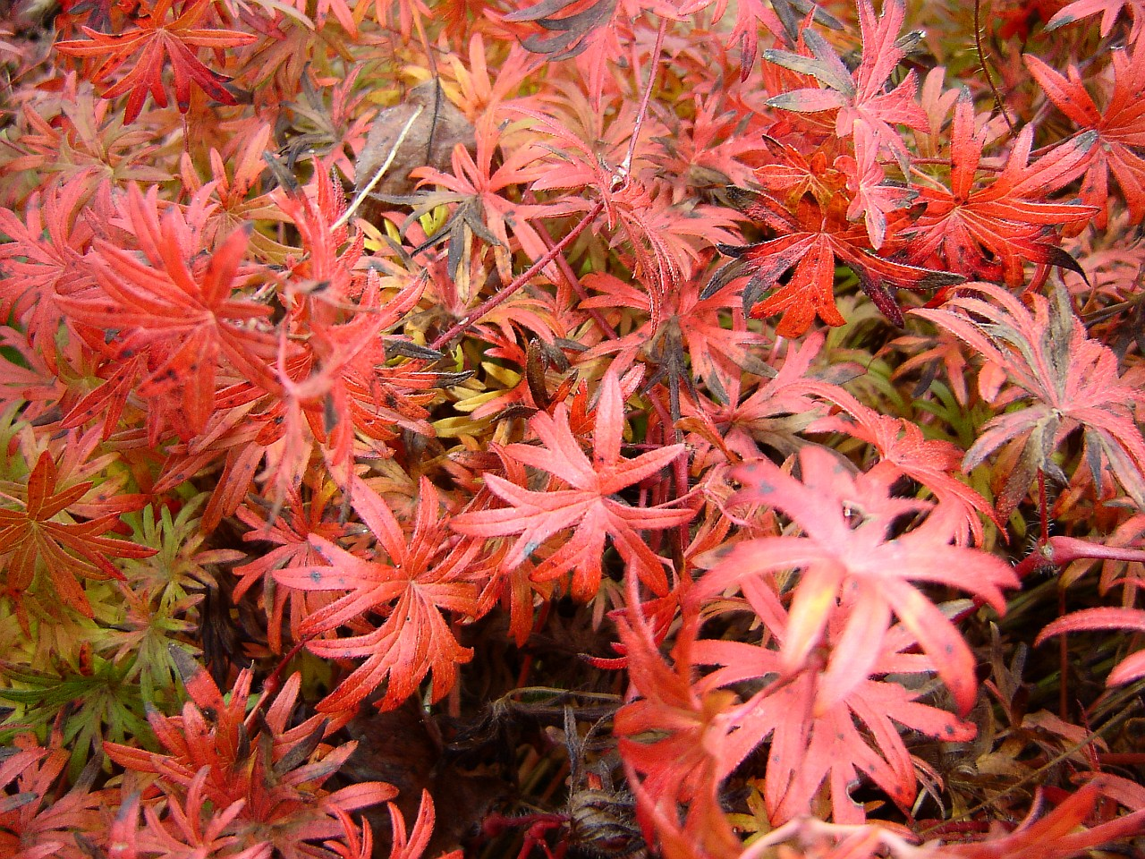 Geranium sanguineum in autumn.